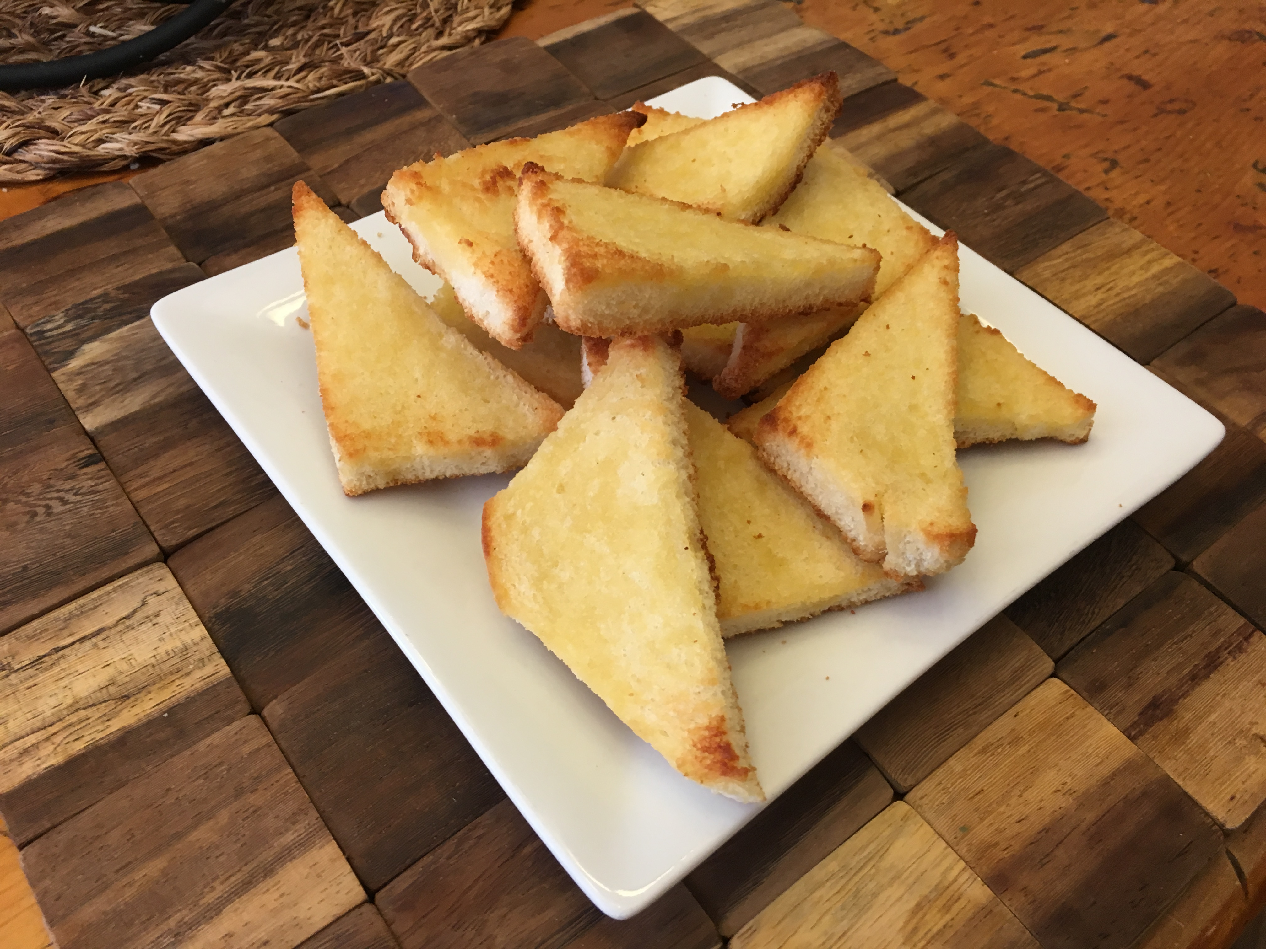 A plate of toast points atop a table.